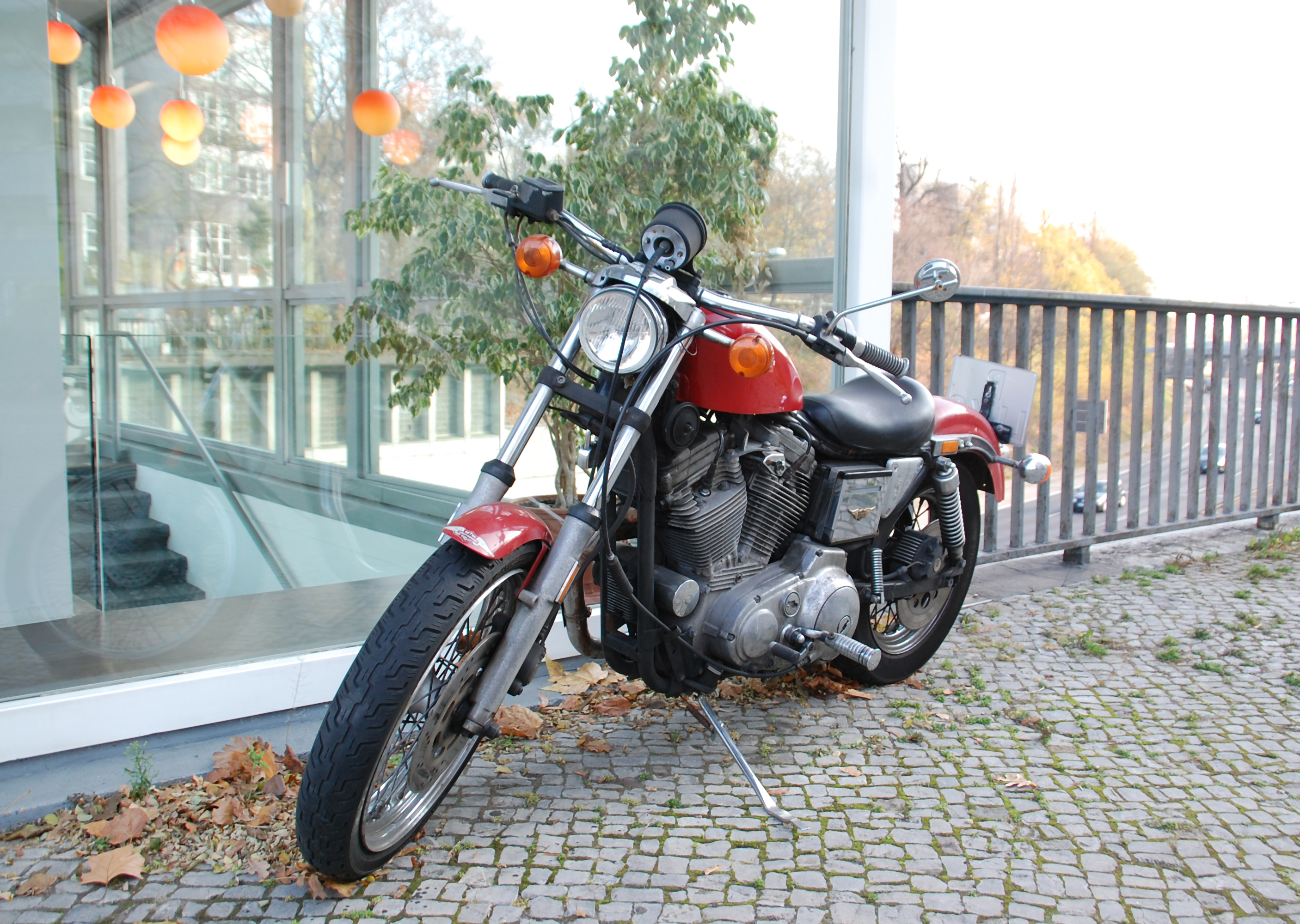 Harley-Davidson Sportster 883 in Berlin 2011